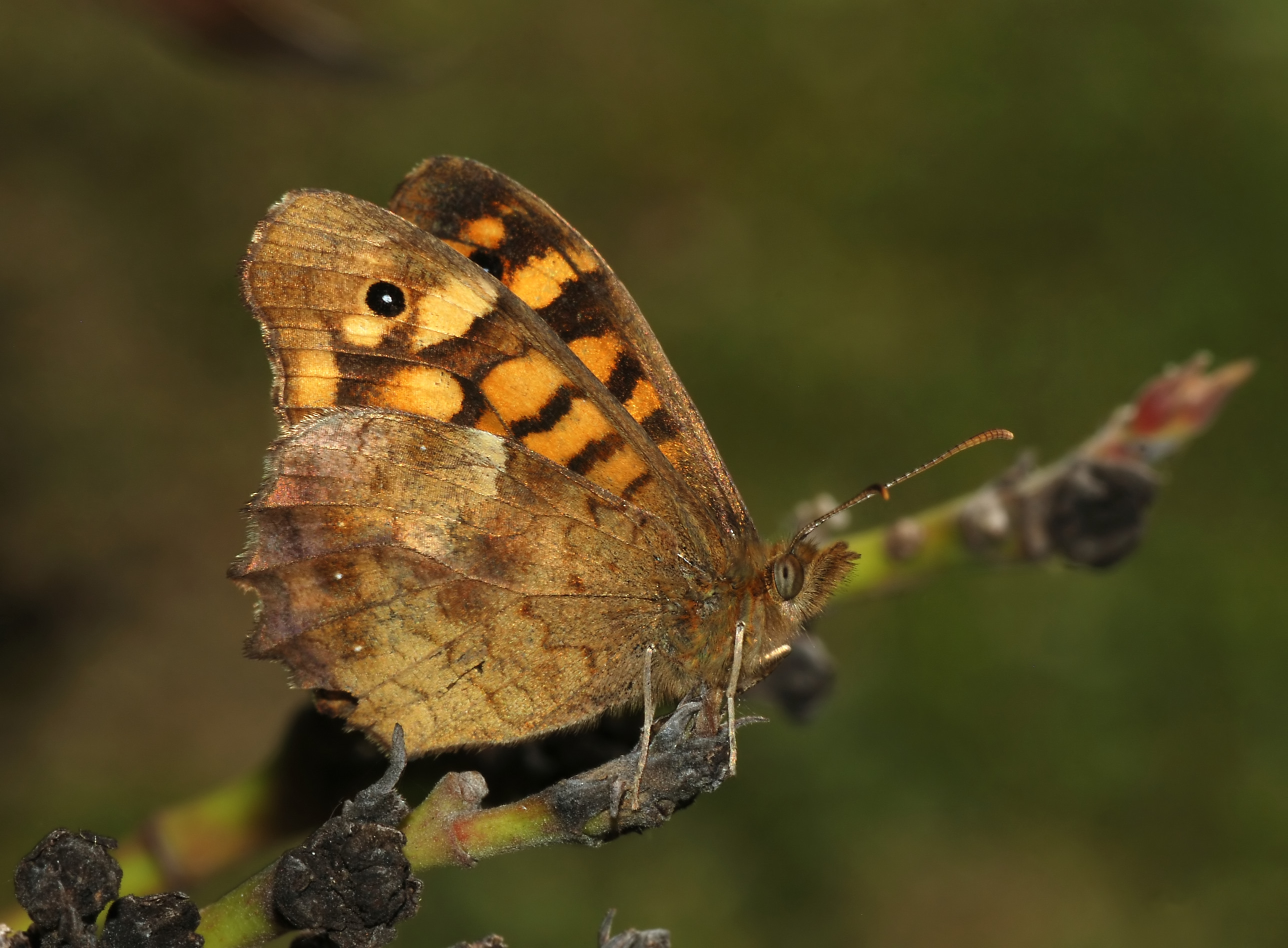 A Pararge aegeria butterfly (Satyridae) Camera: Nikon D80 with Tokina AF 100 Macro Exposure: 1/60, F/16, ISO 100